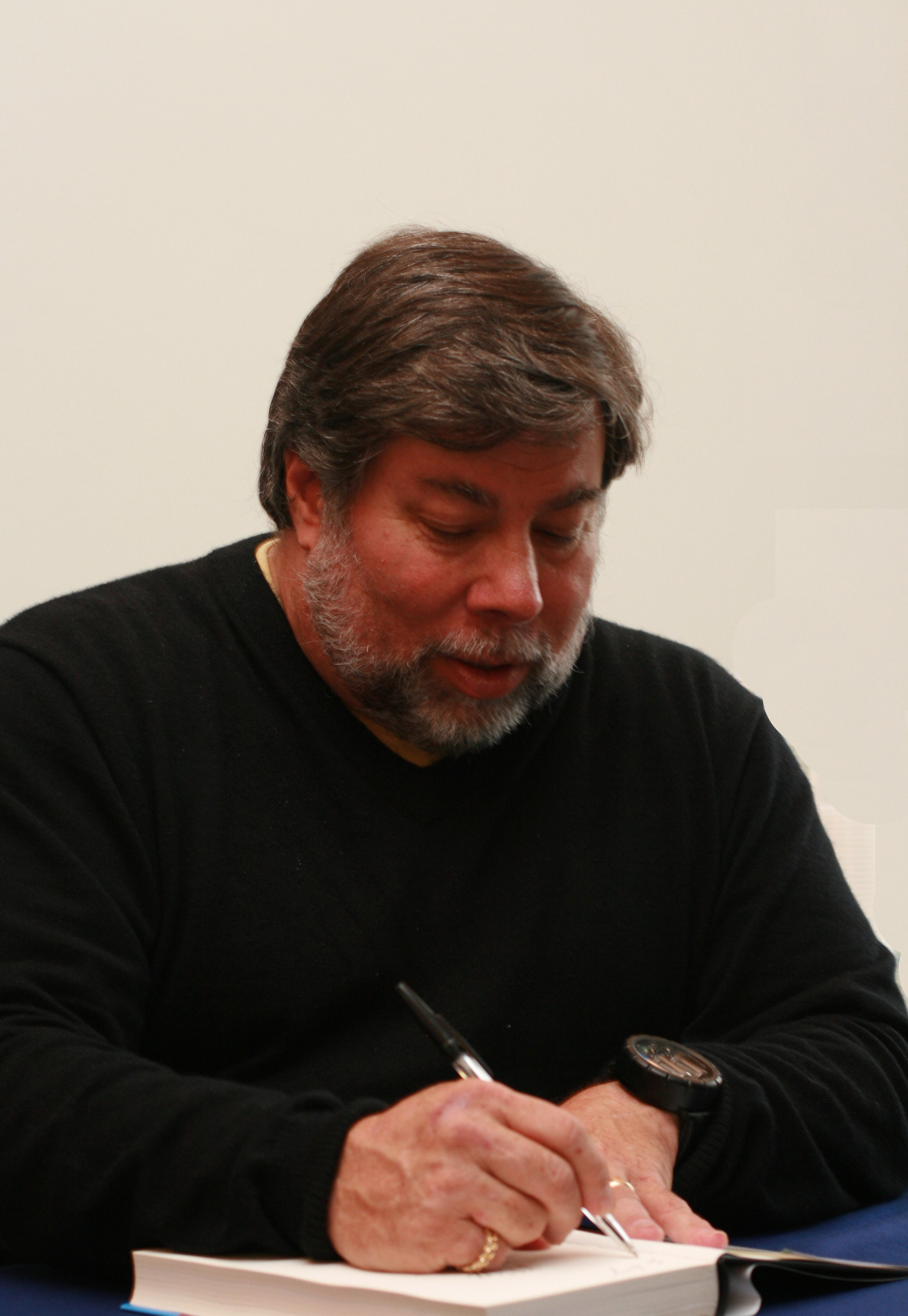 Steve Wozniak signing books.